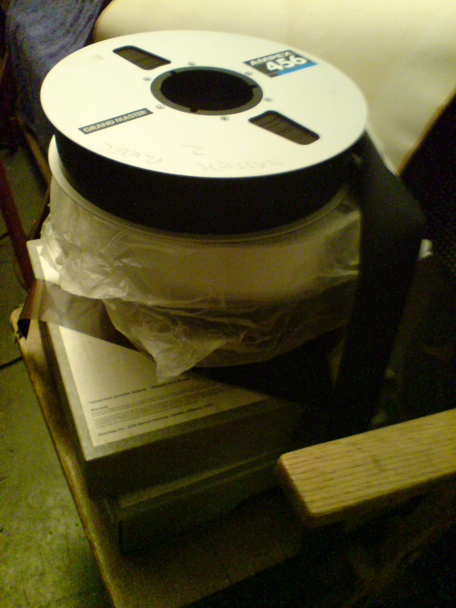 Ampex Grand Master 456 – 2" Multitrack Tape